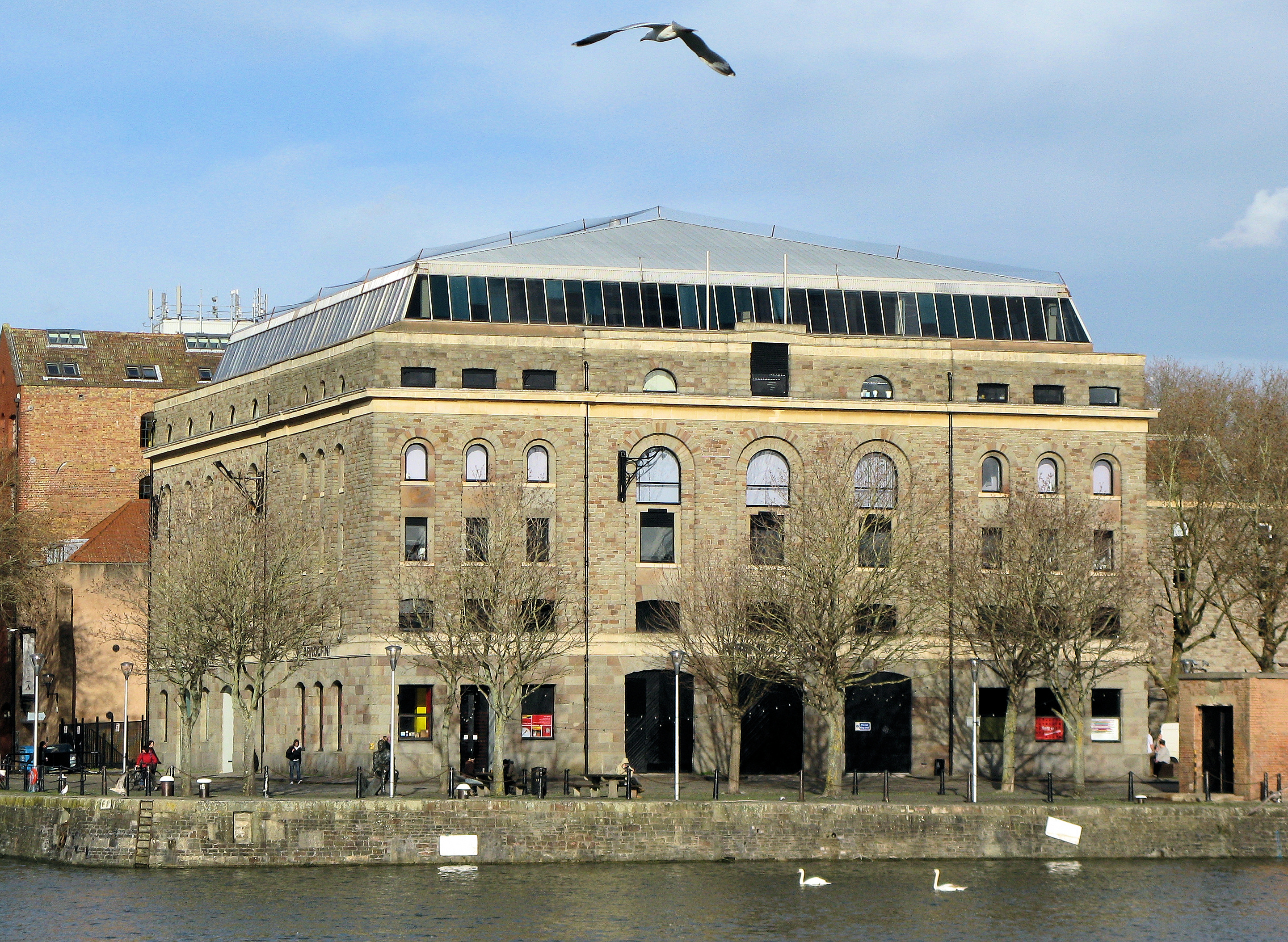 Arnolfini seen from across the docks. The Herring Gull just flew by!